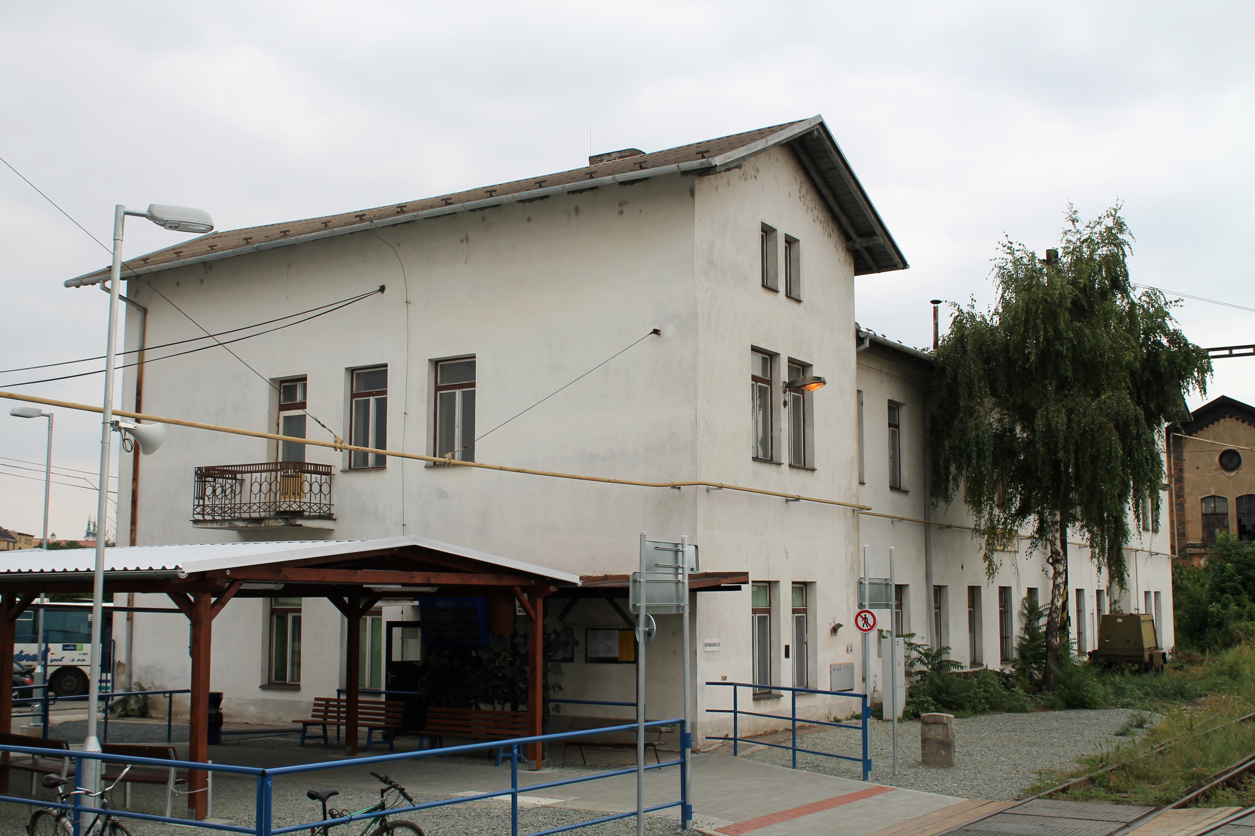 Railway station Brno-Dolní nádraží, Czech Republic - Google Maps - Google Earth